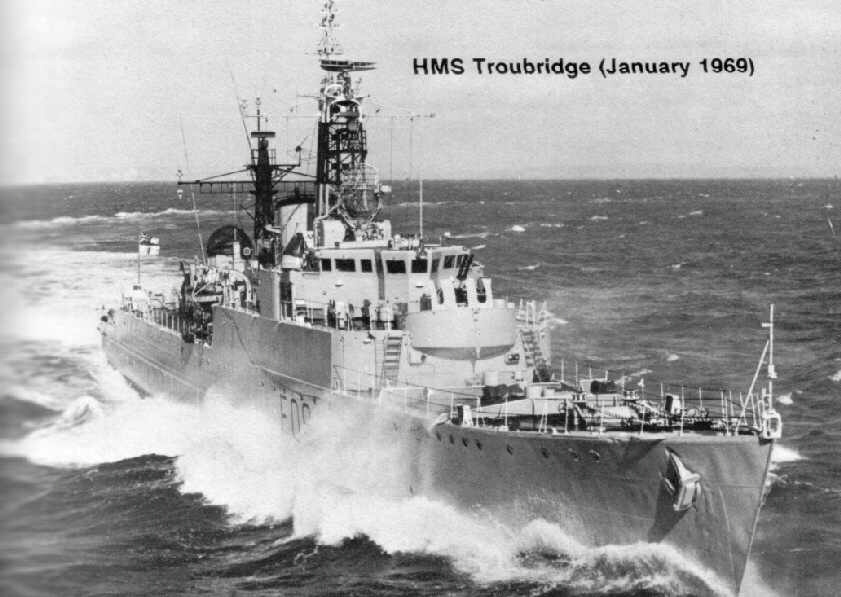 THIS PHOTO OF HMS TROUBRIDGE WAS TAKEN IN APPROXIMATLY 1969 AND MADE AVAILABLE TO CREW MEMBERS